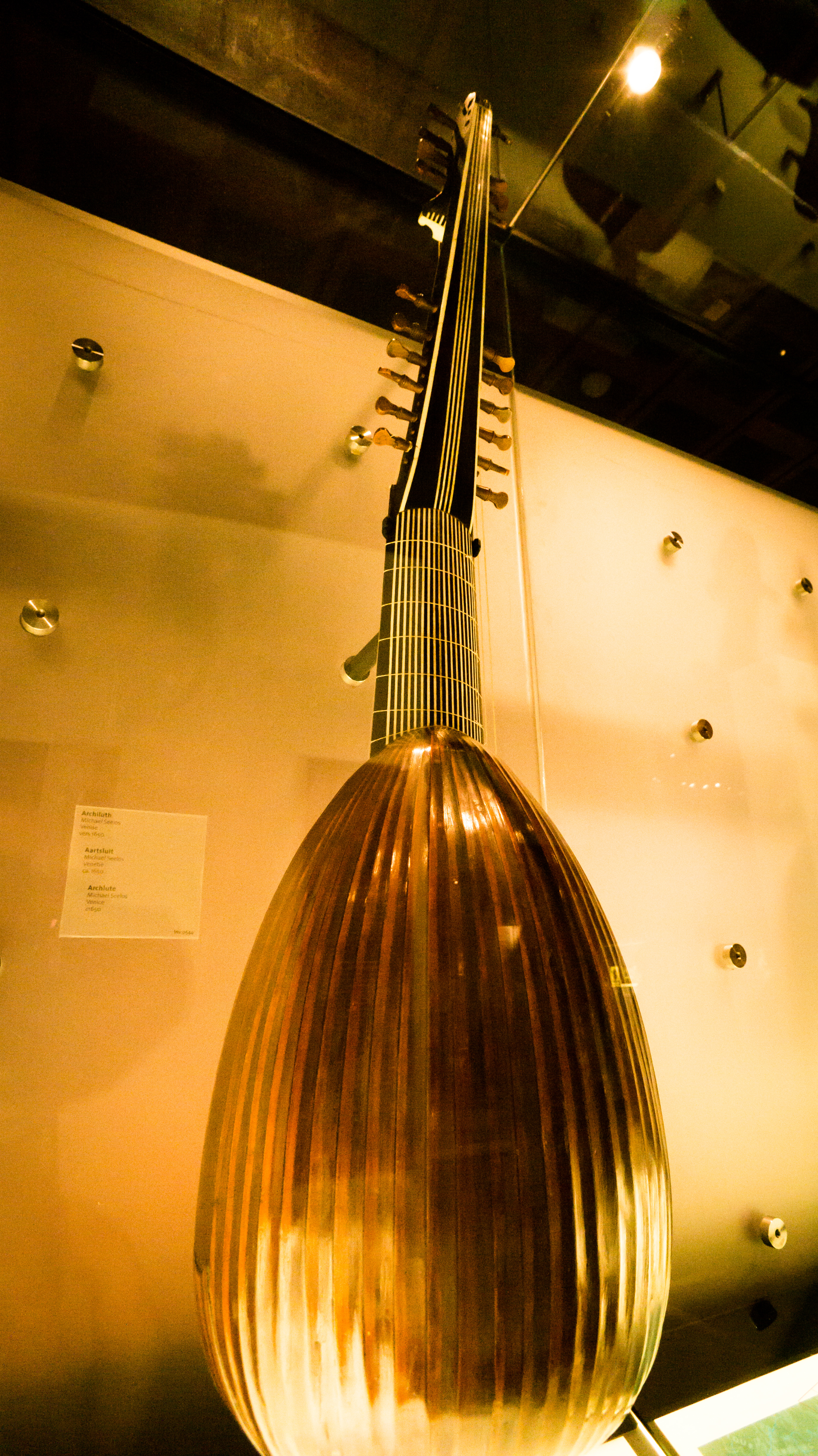 Archlute / Michael Seelos / Venice / c.1650